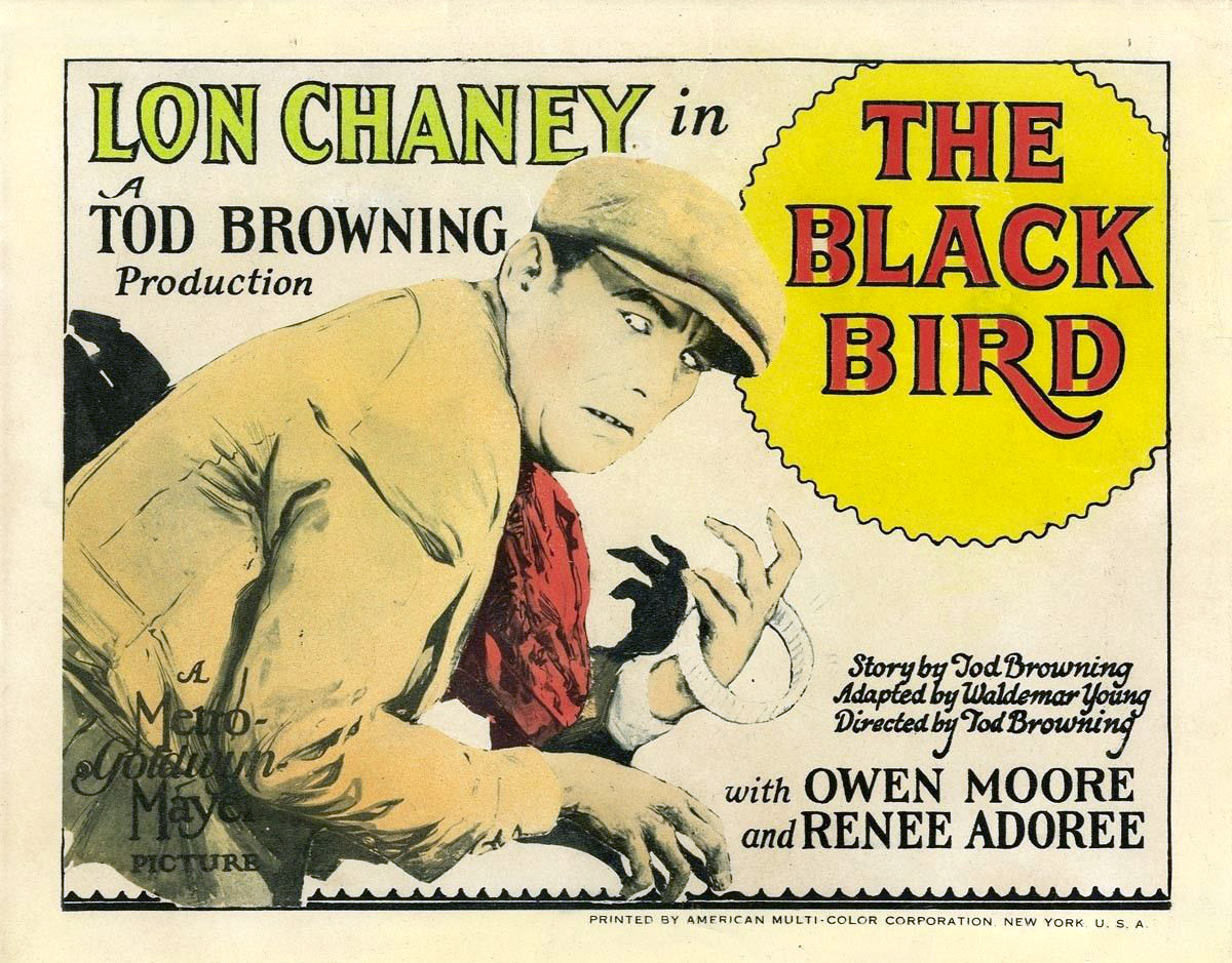 Lobby card for the 1926 film The Blackbird.